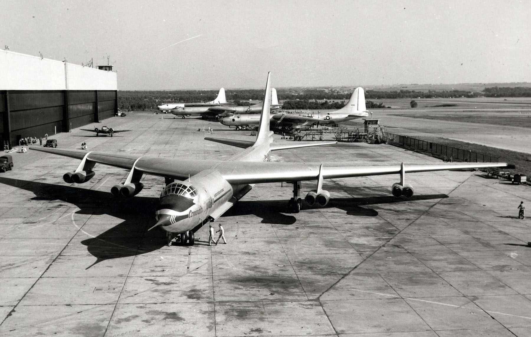 Convair YB-60 front view